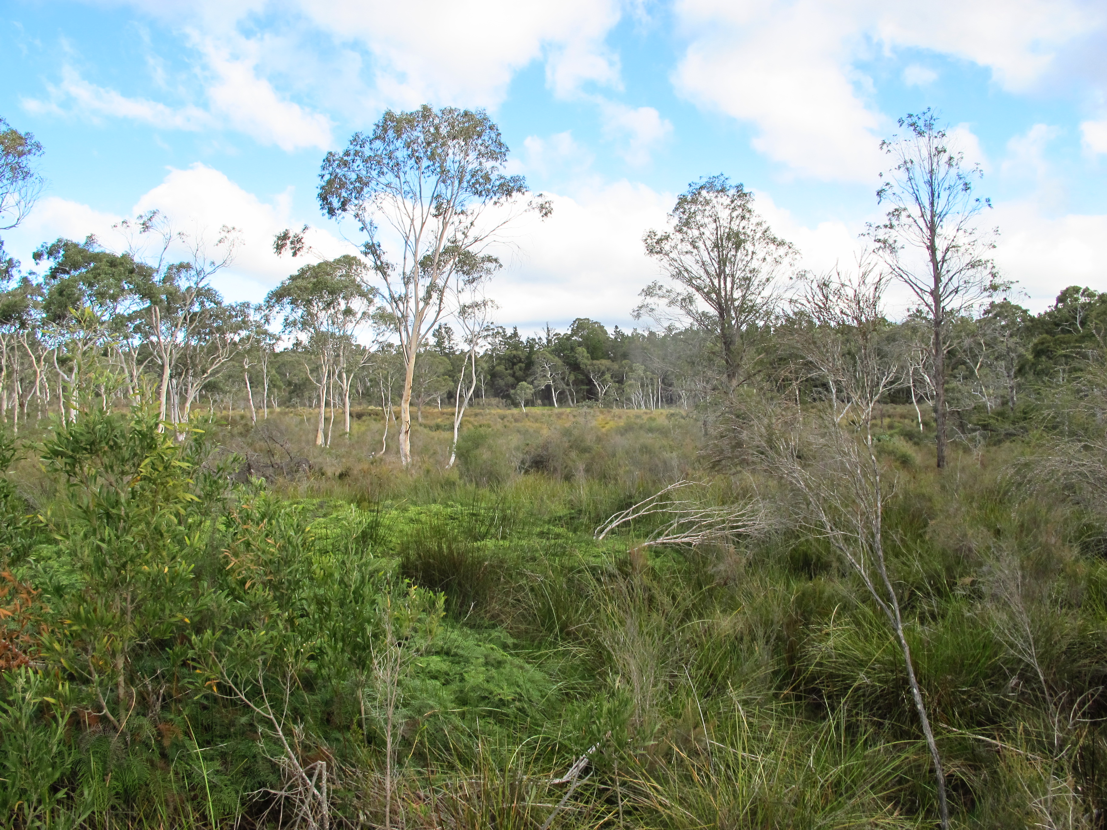 The mixed vegetation found within the Stingray Swamp Flora Reserve.